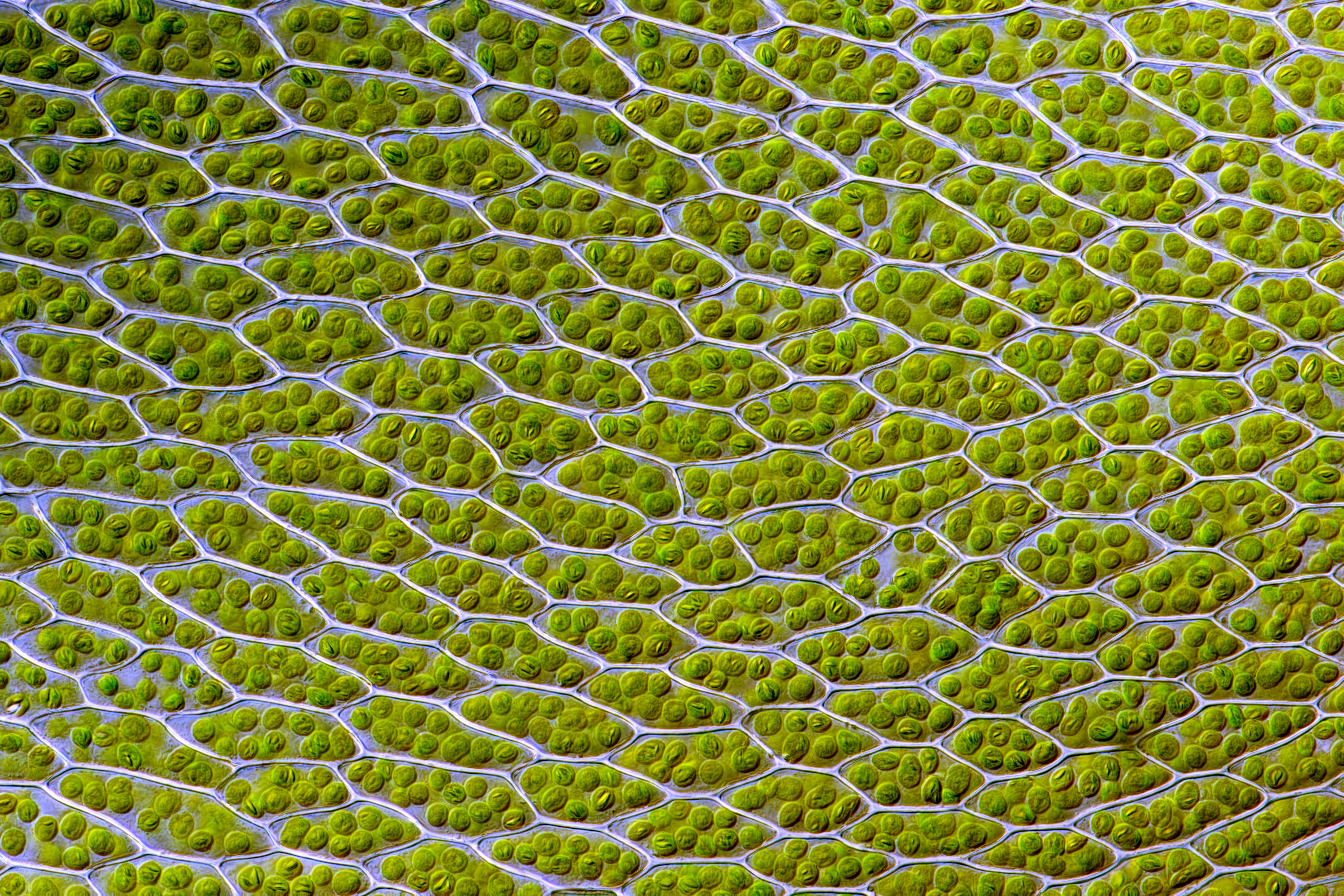 Live leaf cells of the moss Bryum capillare, showing abundant chloroplasts (green spherical bodies) and their accumulated starch granules (elongated bodies within chloroplasts). Lighting = Differential Inference Contrast. Objective = Olympus UPlanFL N 60x. Stack of seven images, each 1 micron apart. Real-world width of image = 0.37 mm. Sunda: Sél daun hirup lukut Bryum capillare, némbongkeun ceuyahna kloroplas (baruleud héjo) jeung guruntulan aci/amilum di jerona.